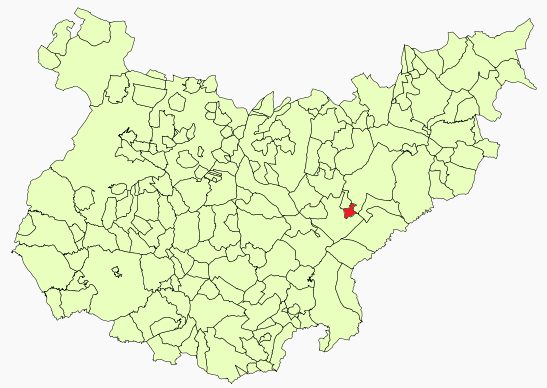 Esparragosa de la Serena